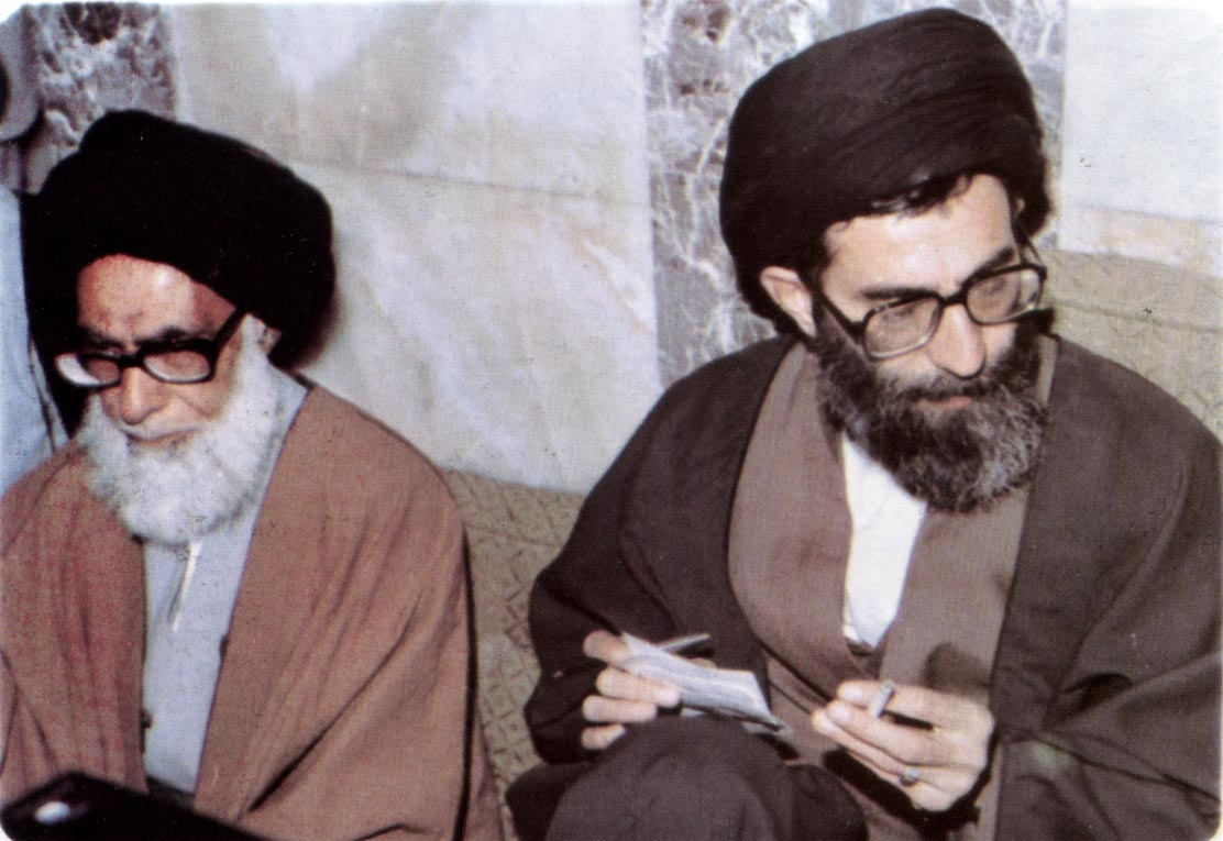 Abdul-Hussein Dastghaib and Ali Khamenei - 1981